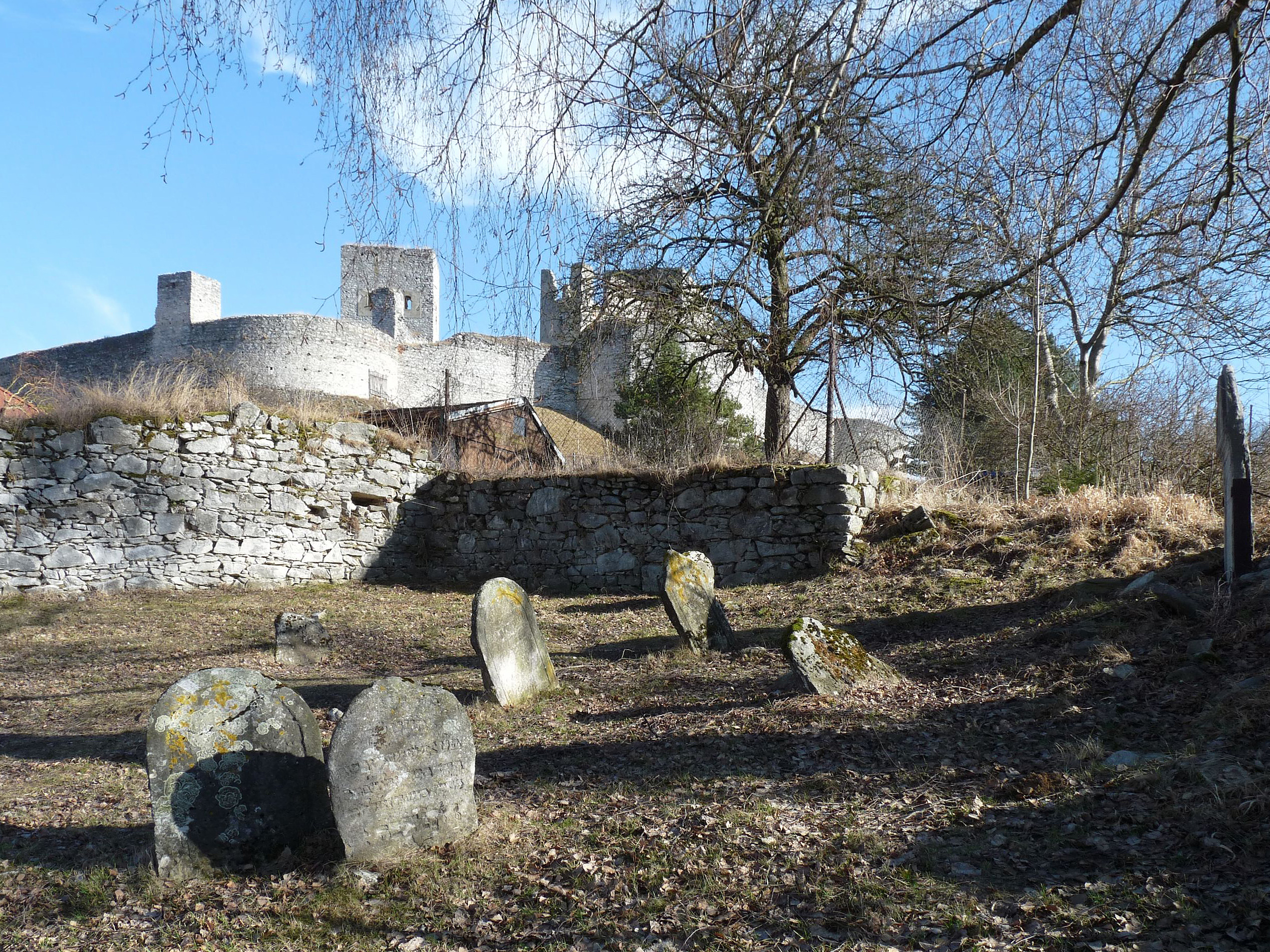 Jewish cemetery in the town of Rabí, Klatovy District, Czech Republic - view towards the castle